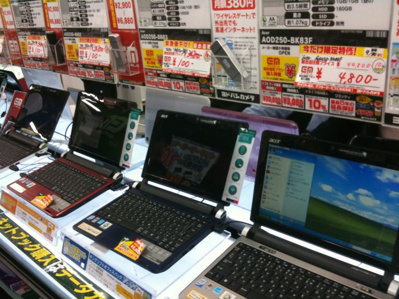 Been asked by many friends lately to help them buy a new computer. 100 yen netbooks are very popular these days since they are small, light, and of course are very cheap. To get the deal you must sign a contract for a two year contract for a USB data modem. It's about 6,000 yen a month for unlimited 3g data. Not a bad deal really. Now you see fast food shops and cafes in Tokyo full of people working on these cheap laptops. What kind of computer are you using?